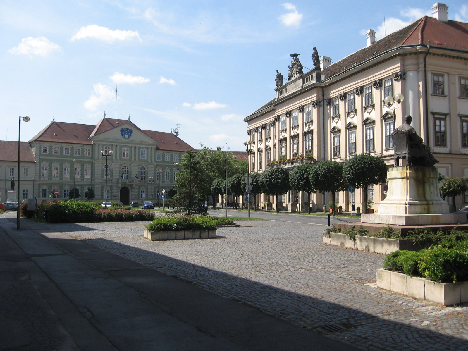 Szombathely Berzsenyi Space background County House (Hauszmann Alajos), to the right of the Bishop's Palace (Melchior Hefele).